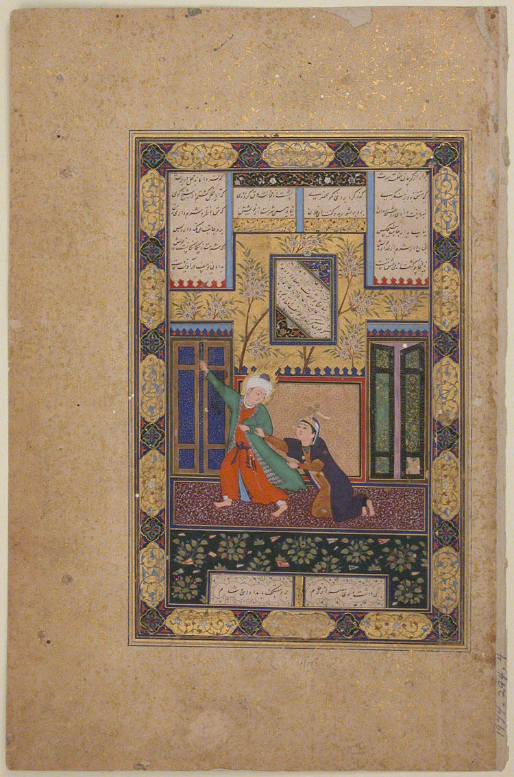 Folio from an illustrated manuscript; Codices